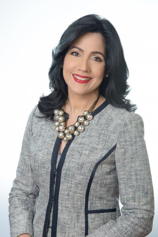 Dominican lawyer and businesswoman